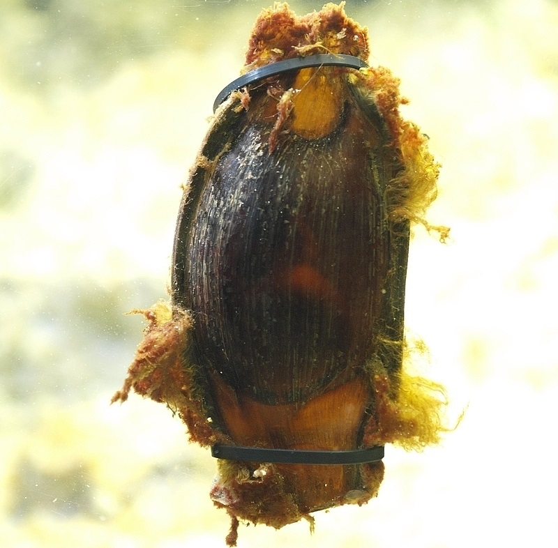 Egg case of the brownbanded bamboo shark (Chiloscyllium punctatum) at the Sunshine International Aquarium.